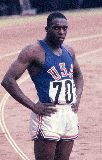 Bob Hayes at the 1964 Olympics